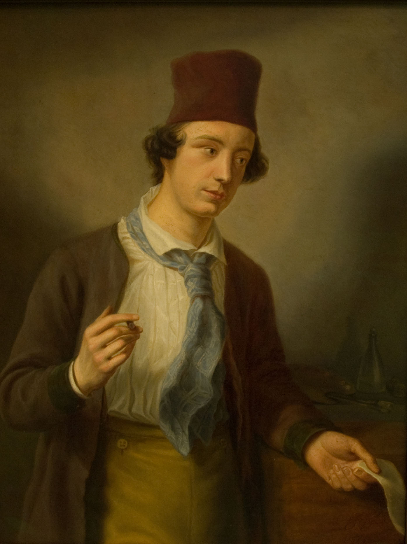 Hamburg, Germany